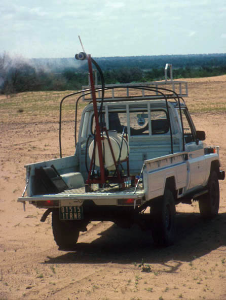 'Ulvamast' Mk II sprayer (Micron Ltd.) used for pesticide application against locusts in Niger